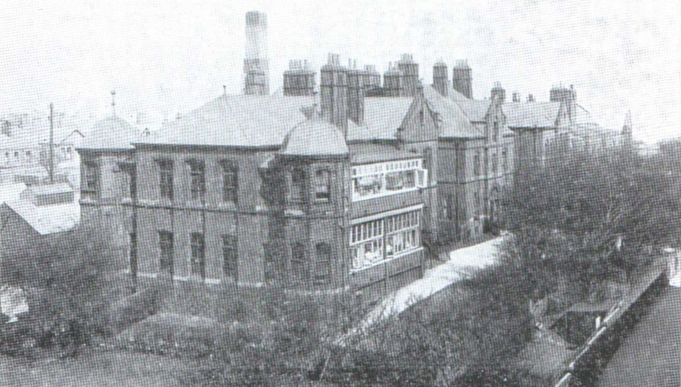 The former North Lonsdale Hospital at St. George's Square in Barrow-in-Furness, England. Completed in stages between 1886 and 1903 it was demolished in the early 1990's and replaced by Furness General Hospital.